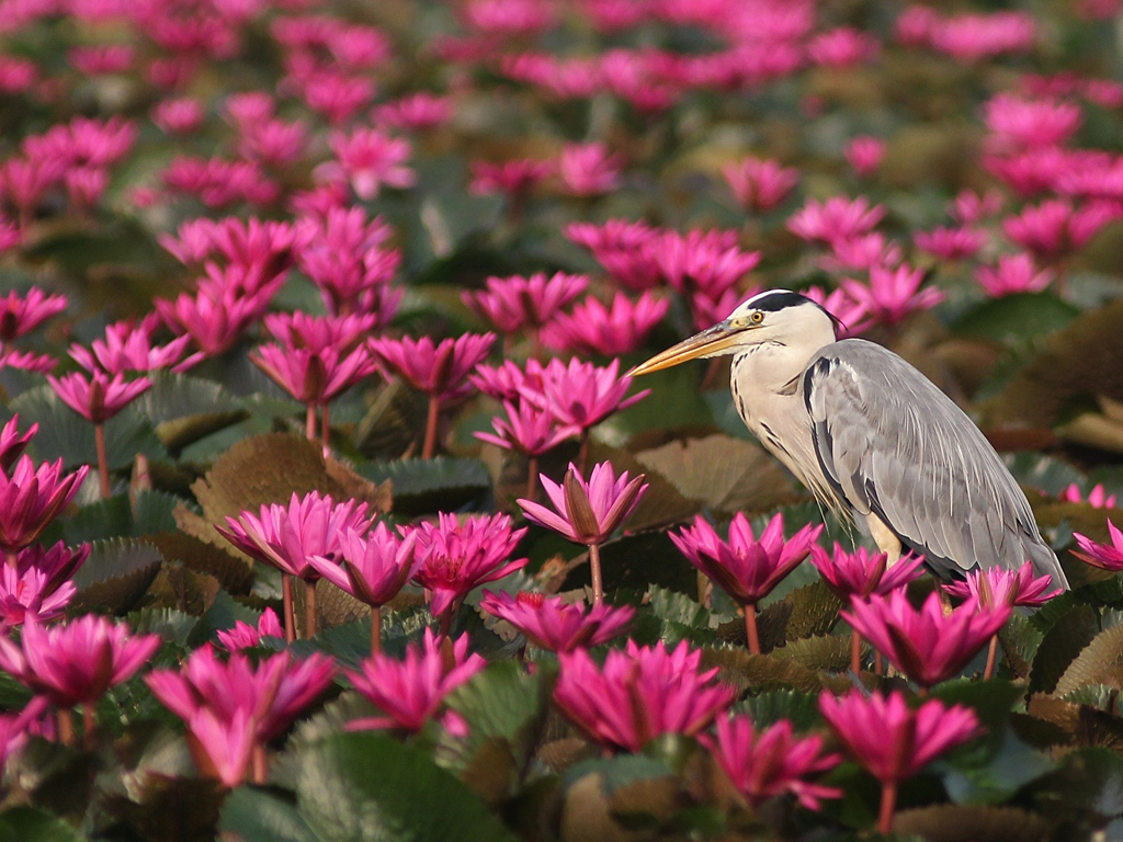 The Chirakkal Chira was cleaned in the end of 2016 after which there was a spurt in the growth of water lilies and also a jump in the number of birds detected at the pond. The pond became a refuge for water birds during the drought that hit the state of Kerala in 2017 due to the poor monsoon of 2016. This image is of a Grey Heron at the pond.